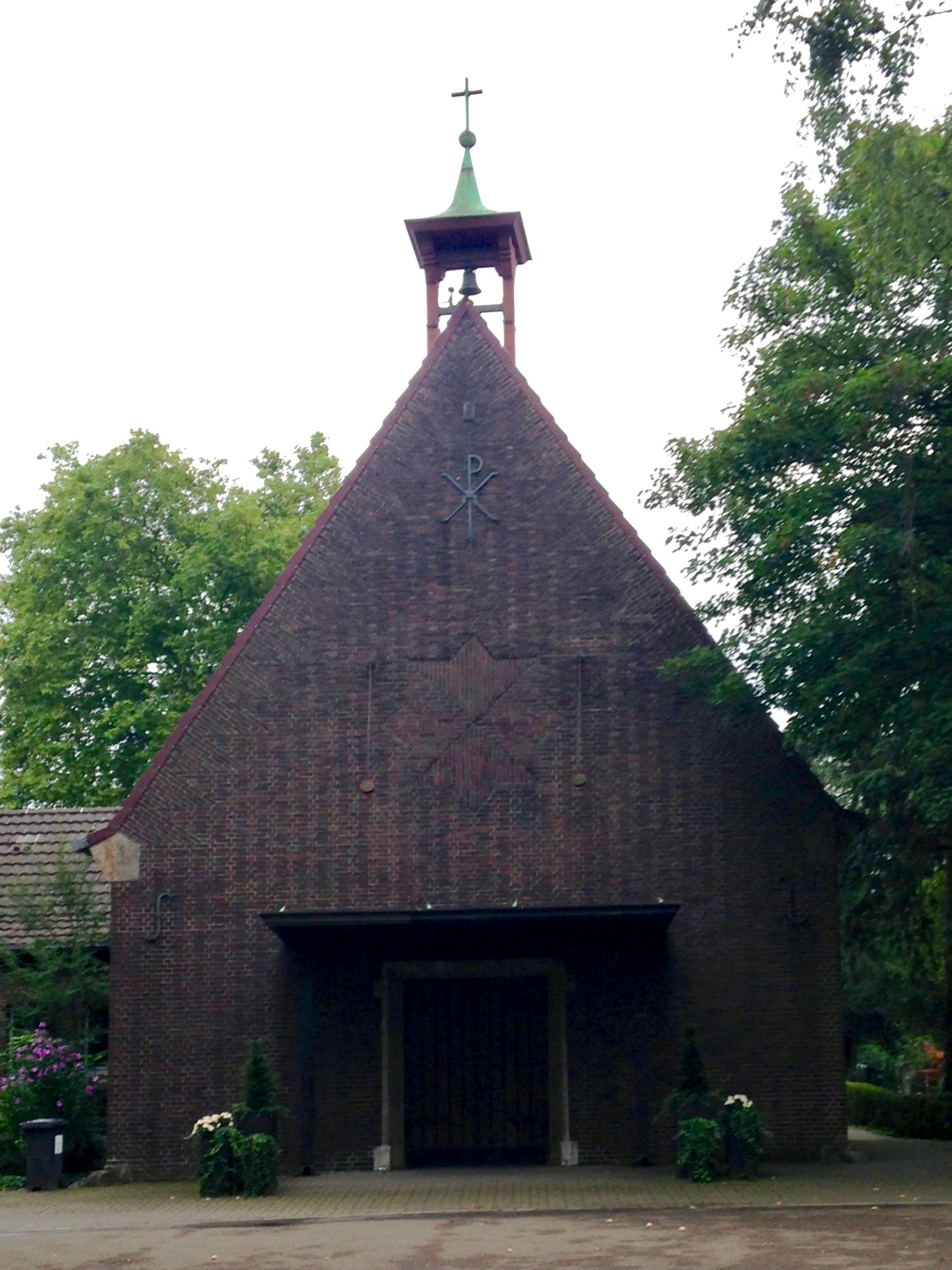 Düsseldorf, Eller cemetary, Cemetary Chapel from 1925